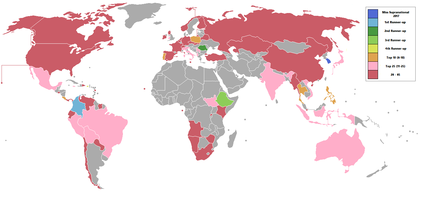 Miss Supranational 2017 contestants.